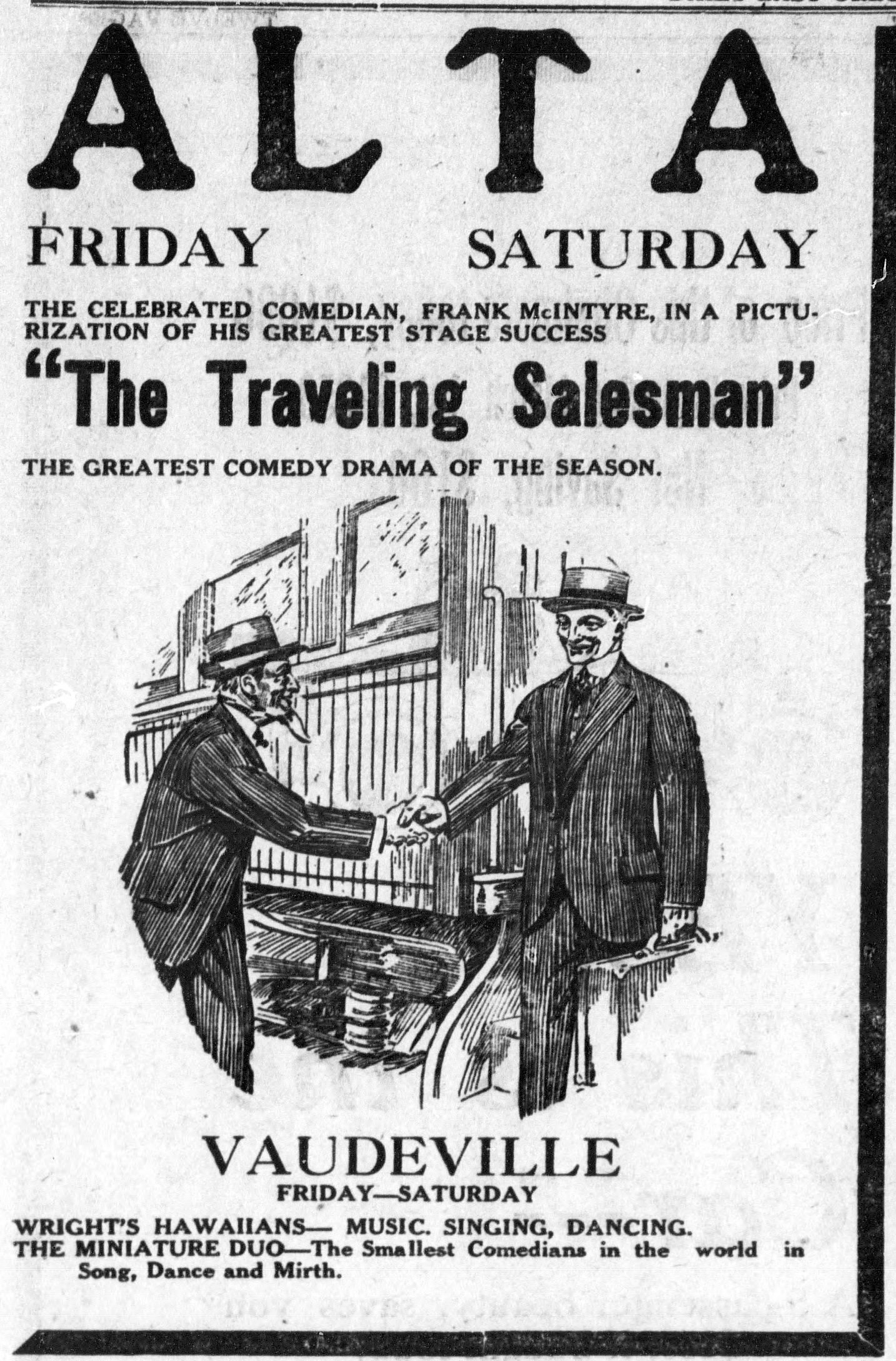 The Traveling Salesman is a 1916 American comedy silent film directed by Joseph Kaufman and written by James Forbes. This is a newspaper advert for the film.